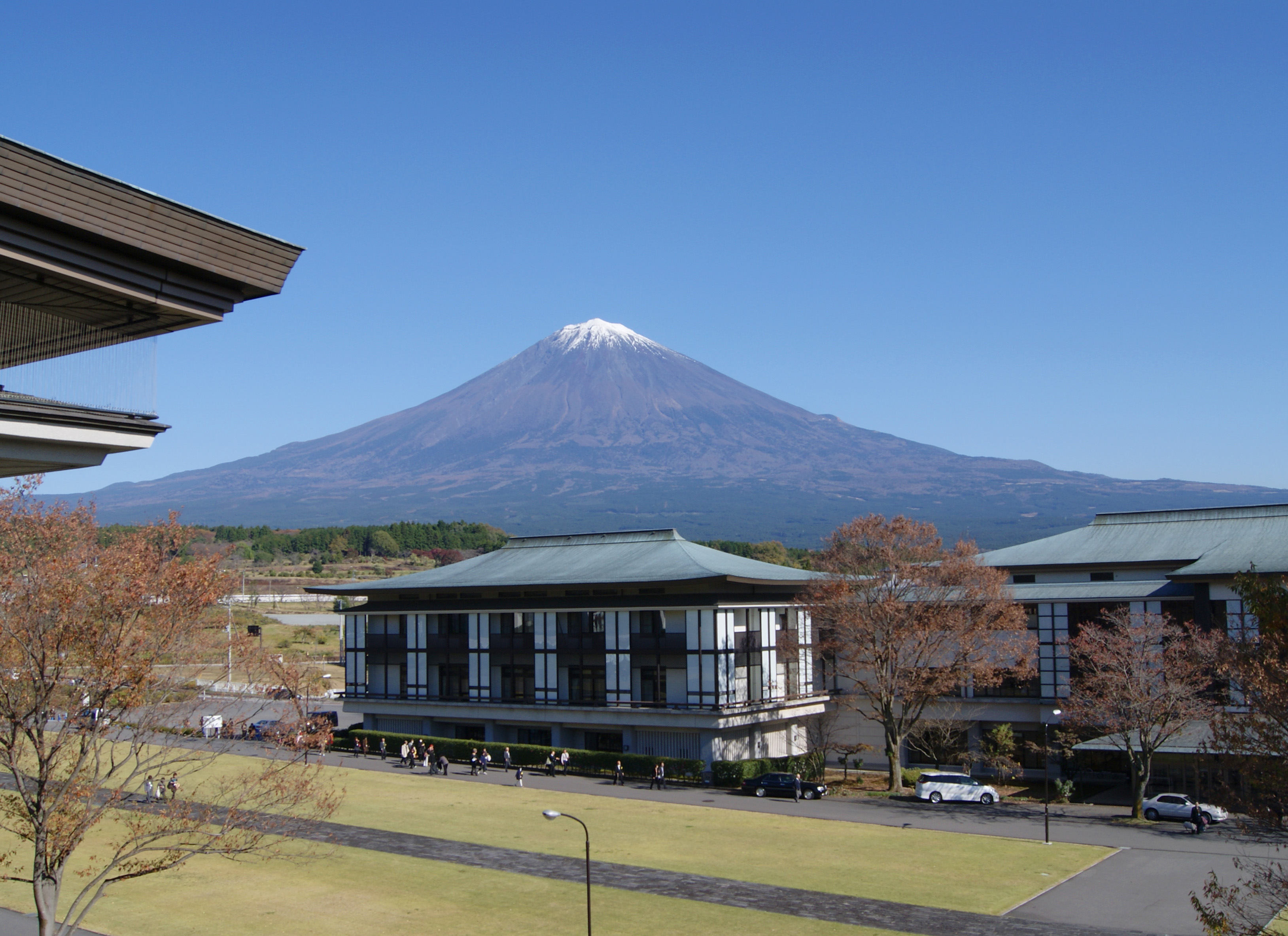 Sōichi-bō of Taiseki-ji.jpg